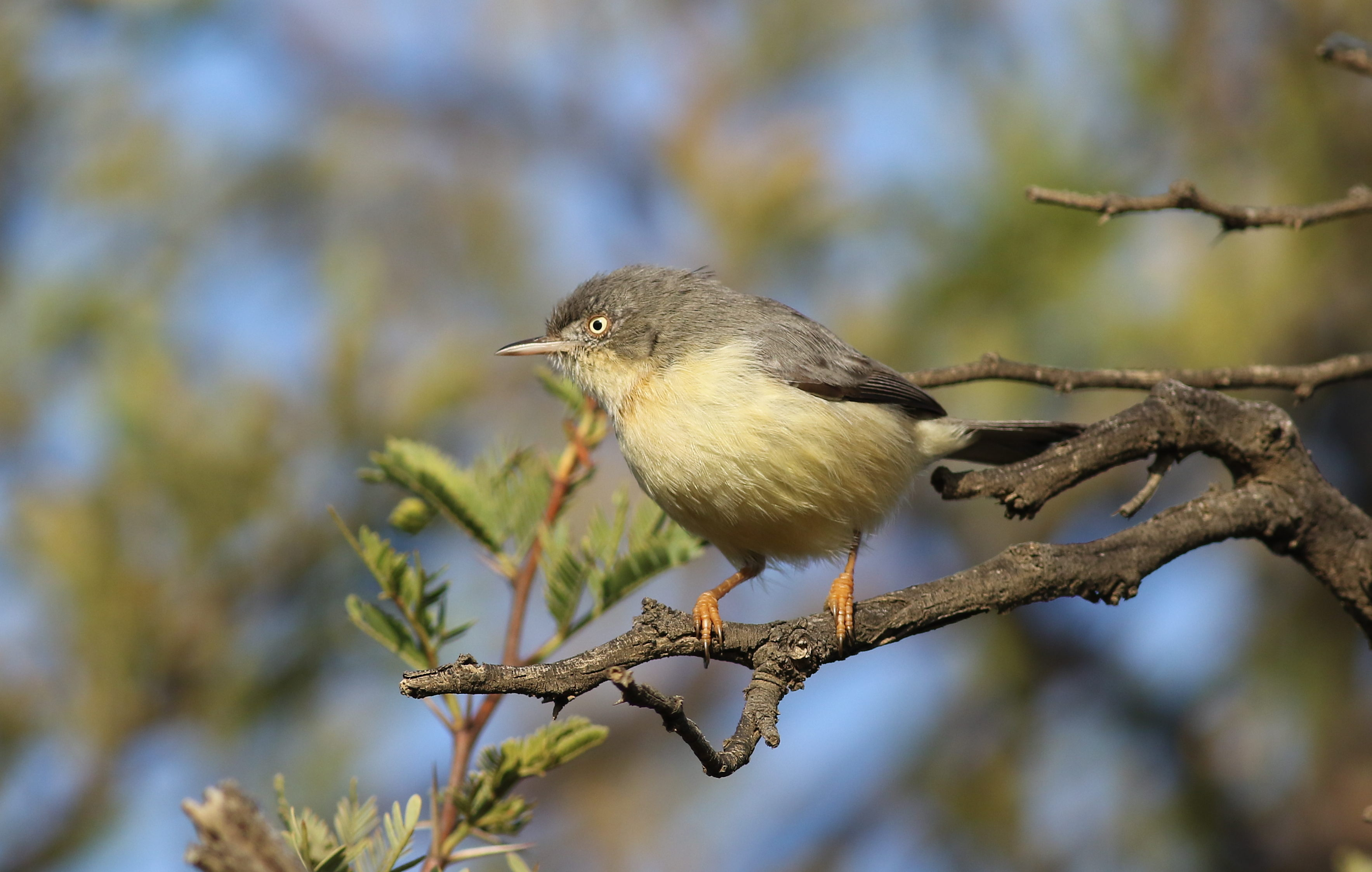 Burnt-necked eremomela, Eremomela usticollis, at Pilanesberg National Park, Northwest Province, South Africa